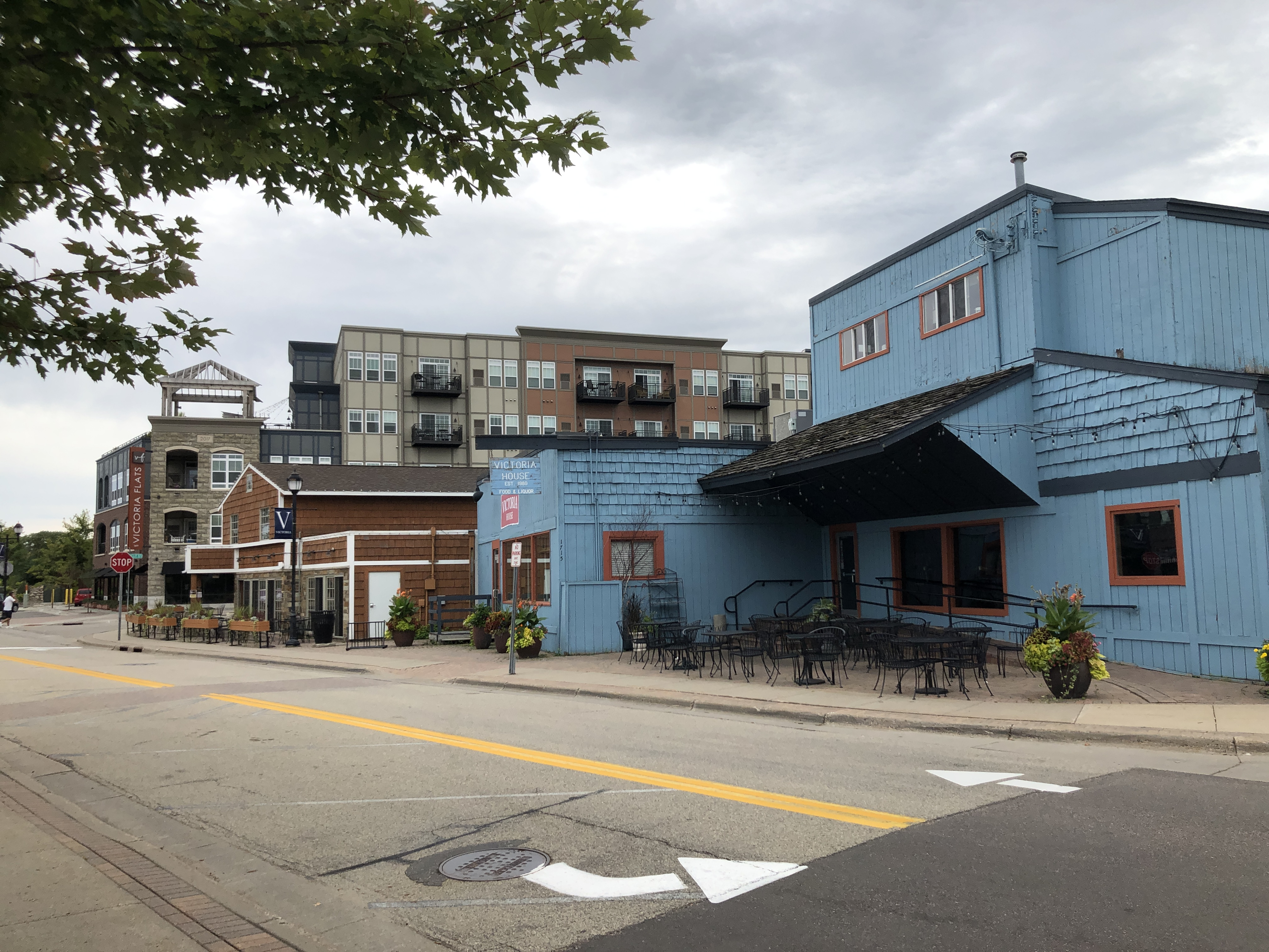 Victoria, Minnesota